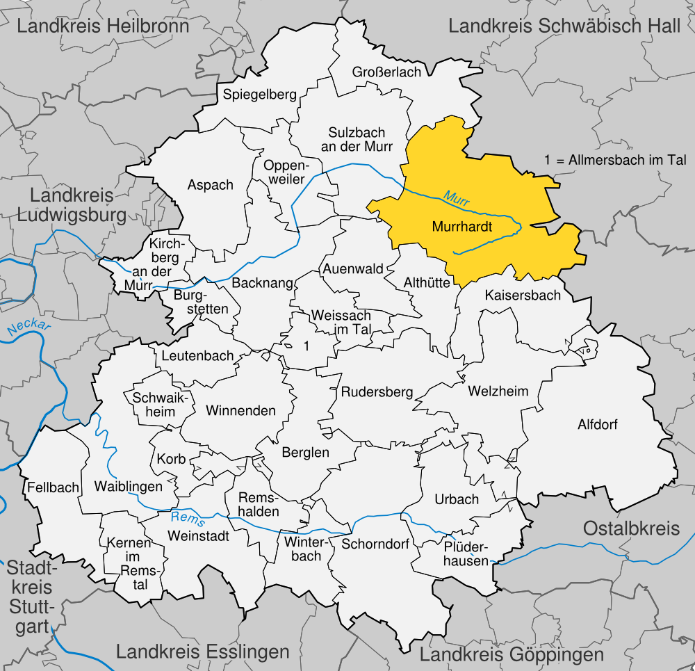 position of Murrhardt within the Rems-Murr-Kreis, Baden-Württemberg, Germany